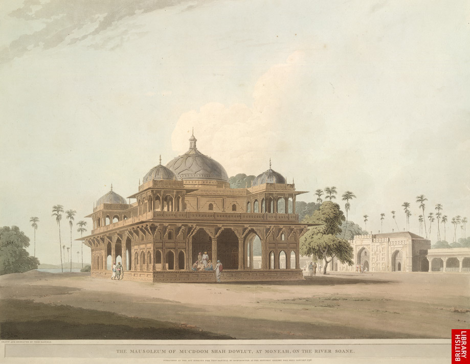 Mausoleum of Makhdoom Shah Daulat (d 1608), a disciple of Makhdoom Yahya Maneri, at Maner, on Son River, 29 km from Patna, 19th century. Makhdum Daulat died at Maner in 1608, and Ibrahim Khan, Governor of Bihar and one of the saint's disciples completed the erection of his mausoleum in 1616.